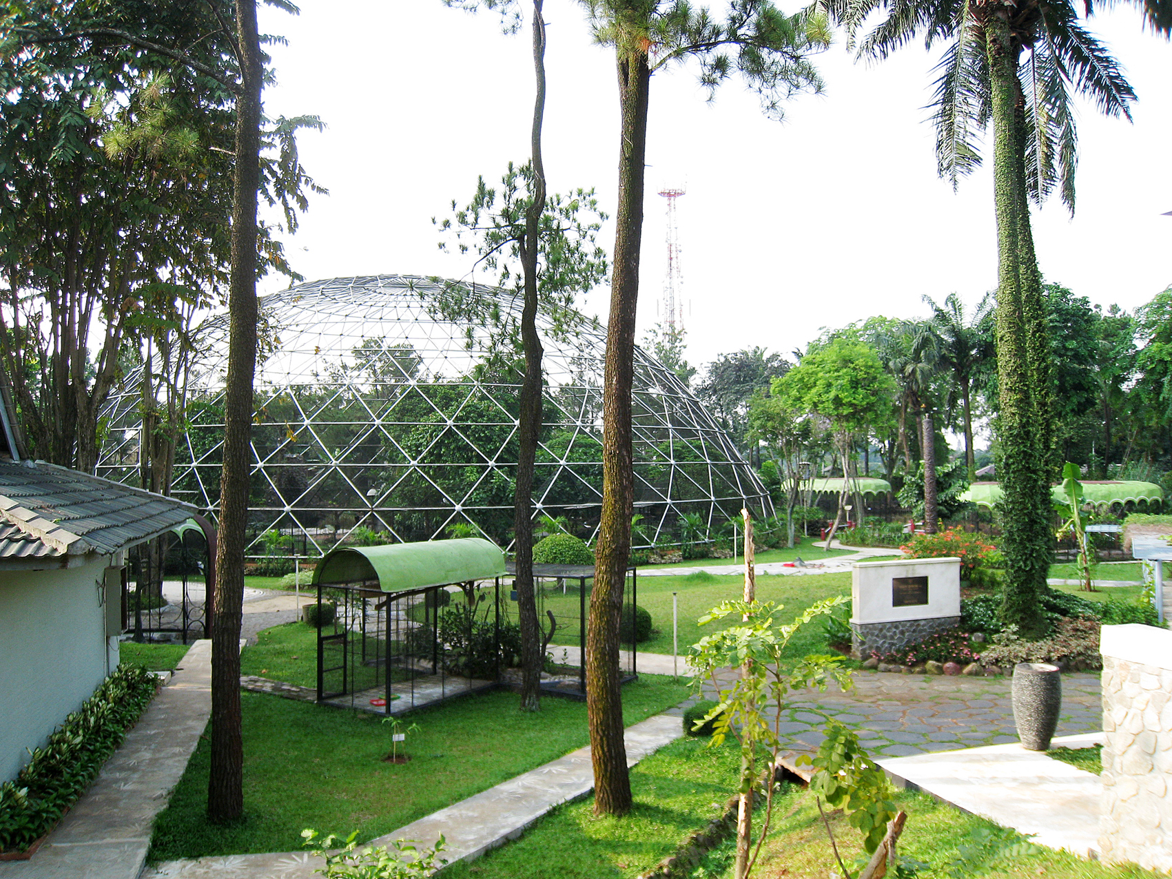 The older section of Bird Park spherical cage at Taman Mini Indonesia Indah, Jakarta.